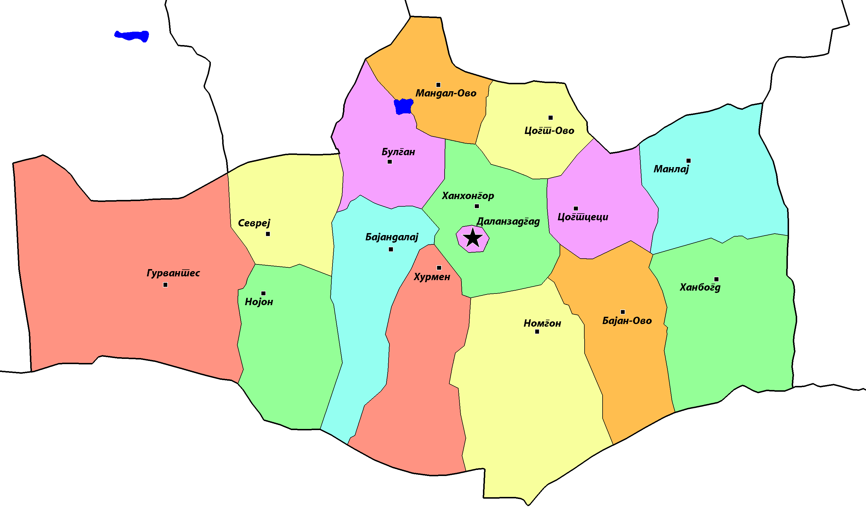 Translated map of Omnogovi Sum into Macedonian language